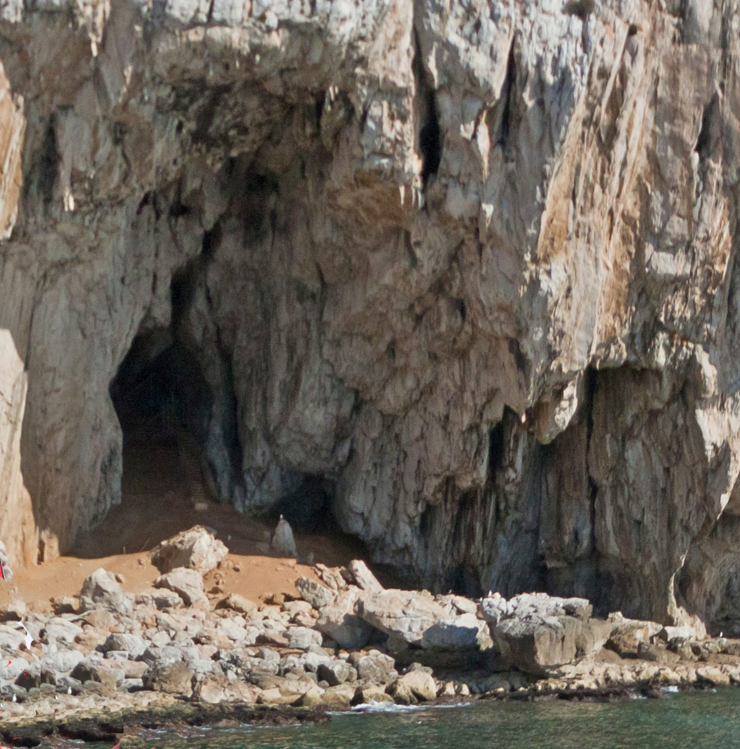 Modified copy of file below. Cropped to just get Vanguard cave - some repairs at lhand corner